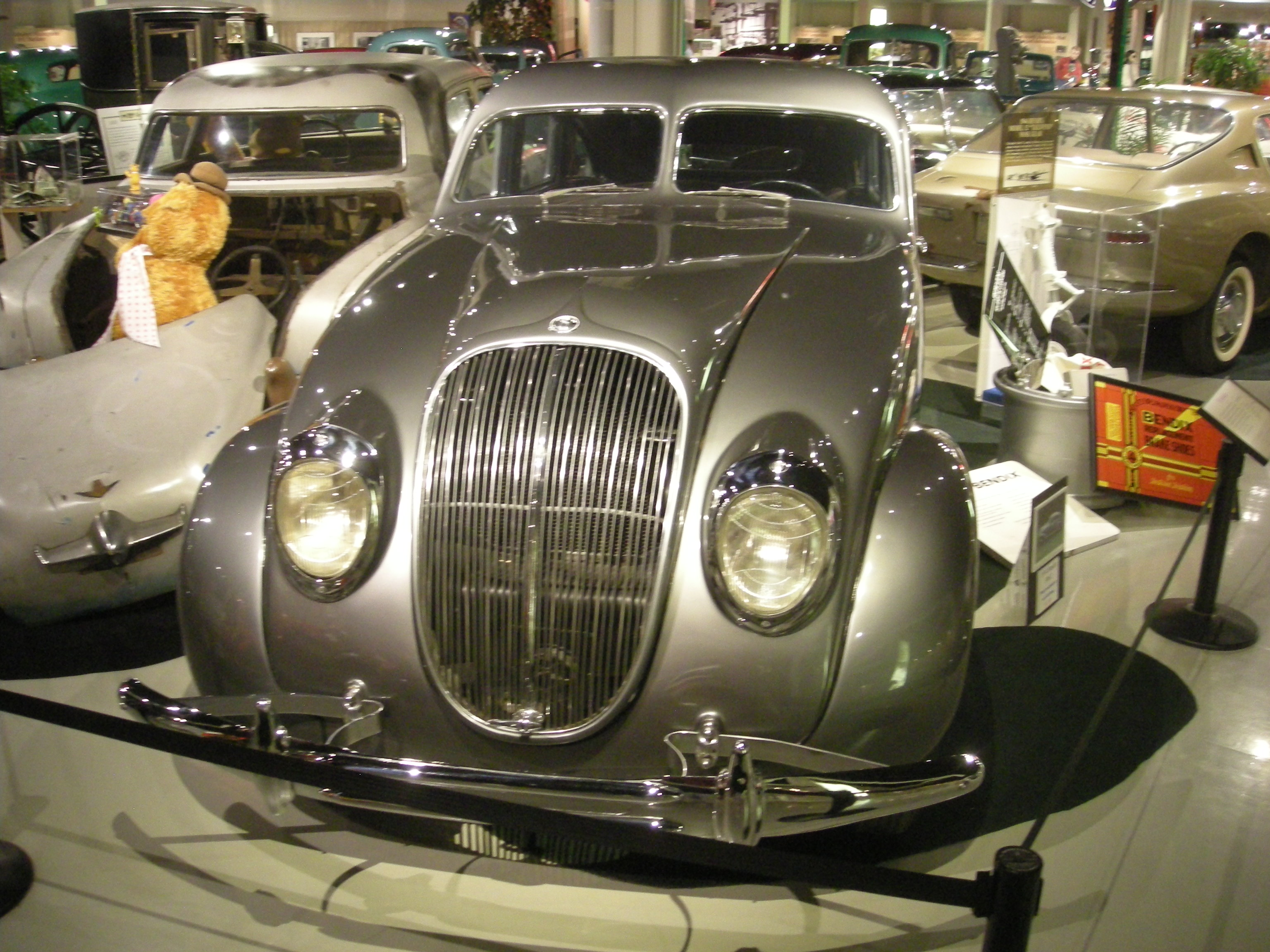 The 1934 Bendix SWC at the Studebaker National Museum in South Bend, Indiana (United States).